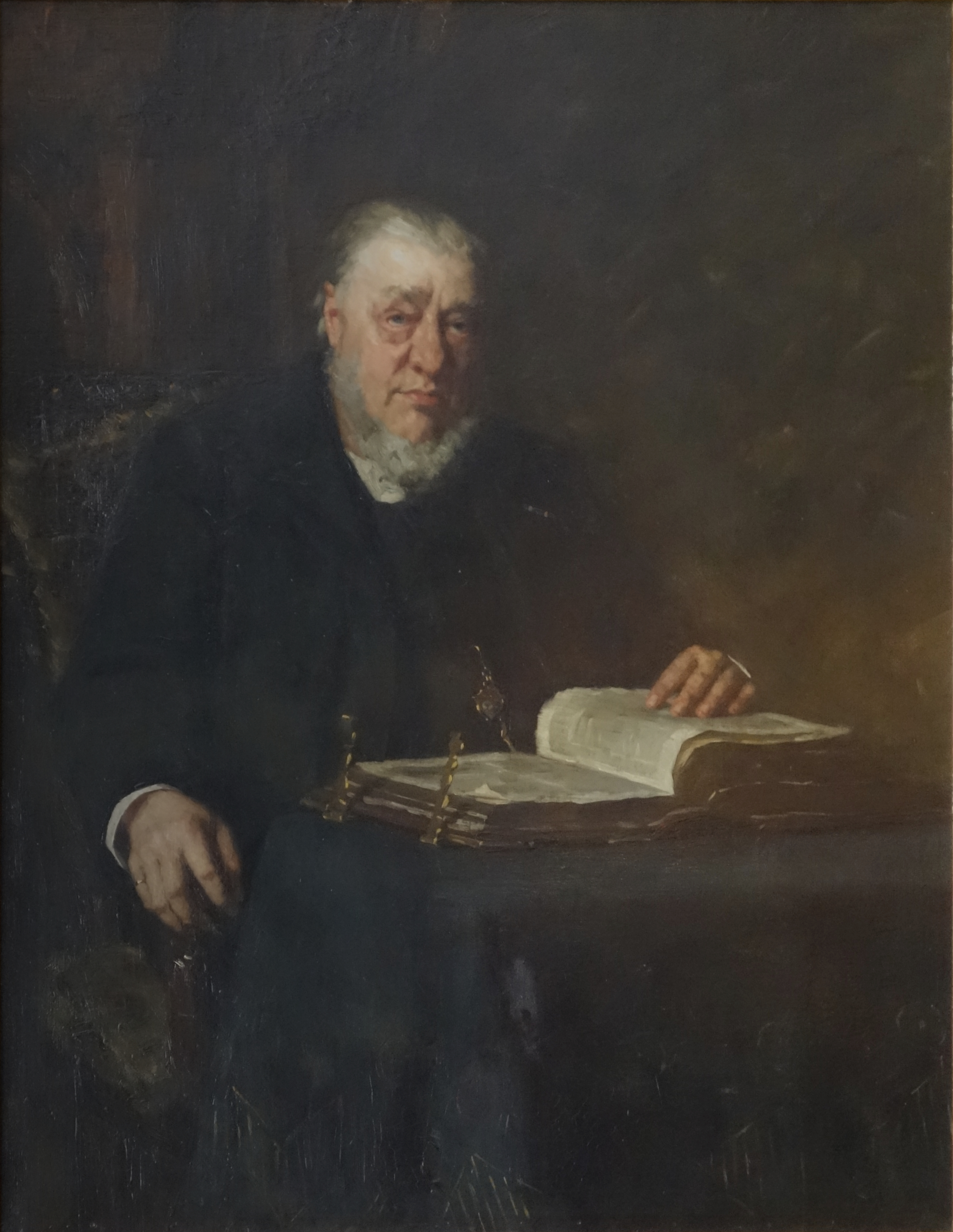 Portrait of Paul Kruger (with Bible) by Schwartze. Location: Zuid-AfrikaHuis, Keizersgracht 141, Amsterdam